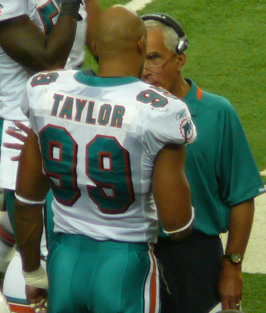 If used somewhere other than Wikipedia, Nelson, by name.